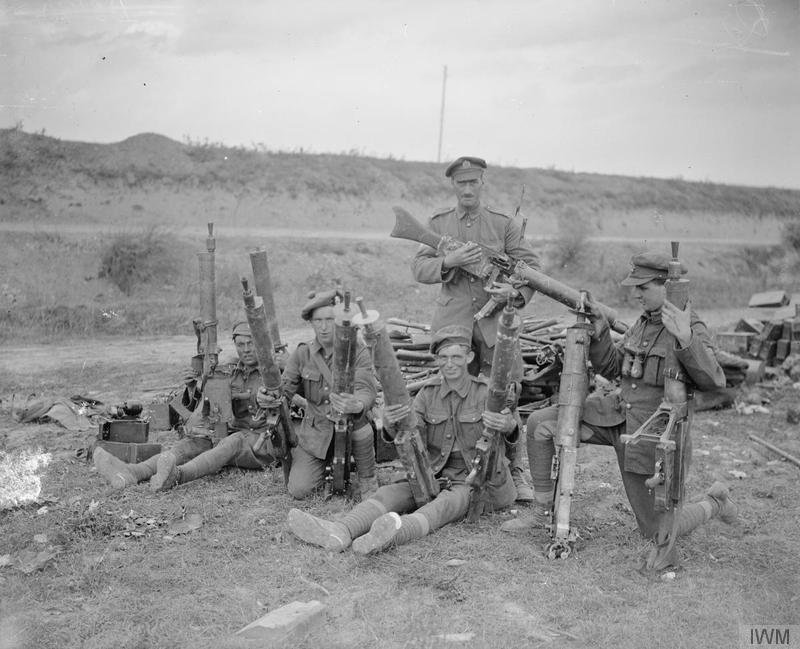 The Hundred Days Offensive, August-november 1918 Troops of the 52nd (Lowland) Division with captured German MG 08/15 machine guns. Queant, 6 September 1918.